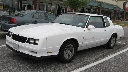 1983-1986 Chevrolet Monte Carlo photographed in USA.